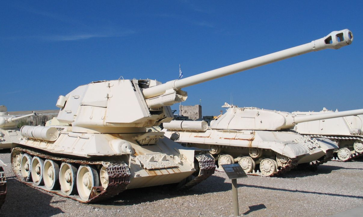 Description: Captured Egyptian T-100 tank destroyer in Yad la-Shiryon Museum, Israel. 2005, with a Soviet-made IS-3 heavy tank in the background. Source: Photo by me, User:Bukvoed.